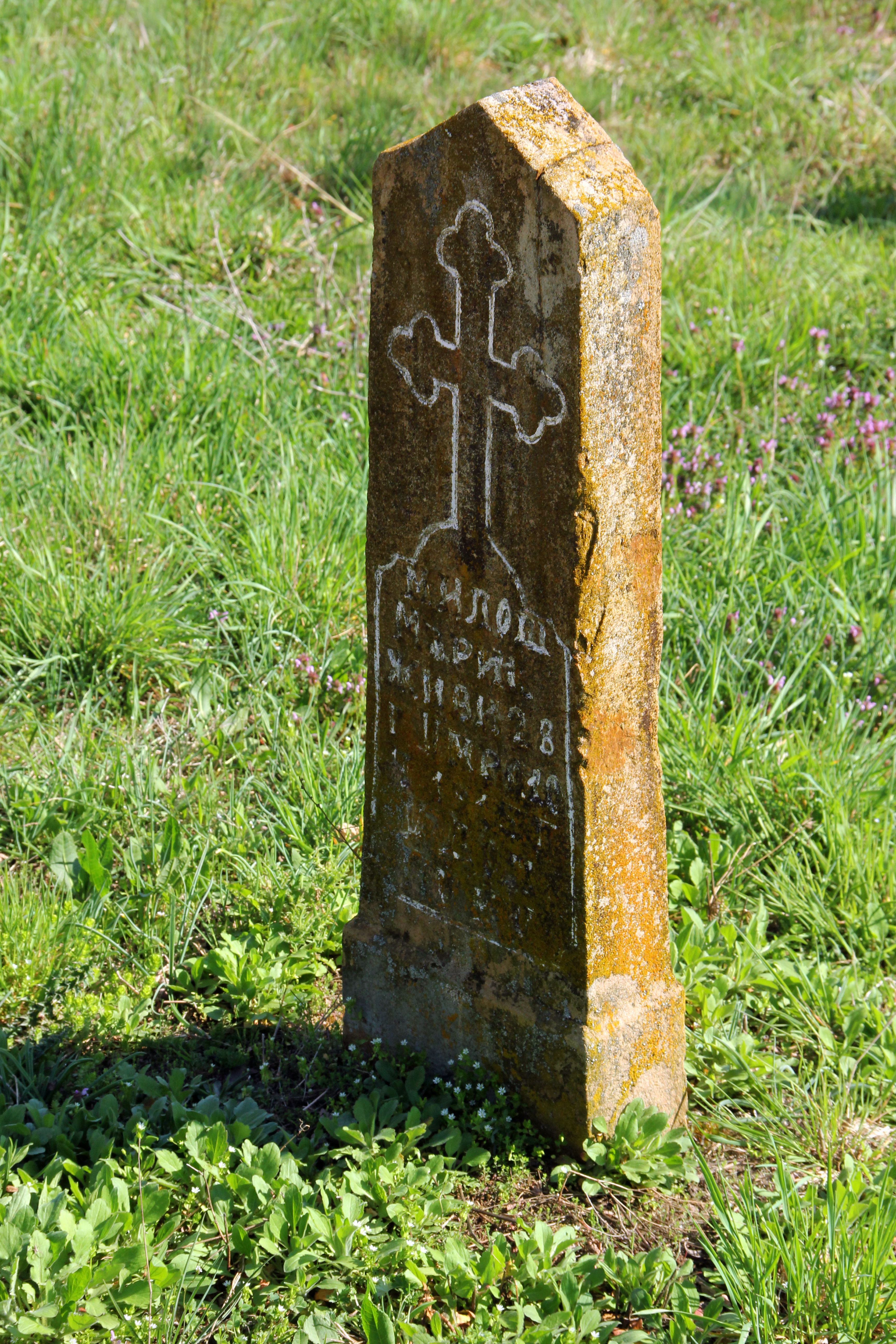 Roadside tombstone erected in memory of Milos Maric. It is located in the village of Srezojevci (the municipality of Gornji Milanovac), Serbia.